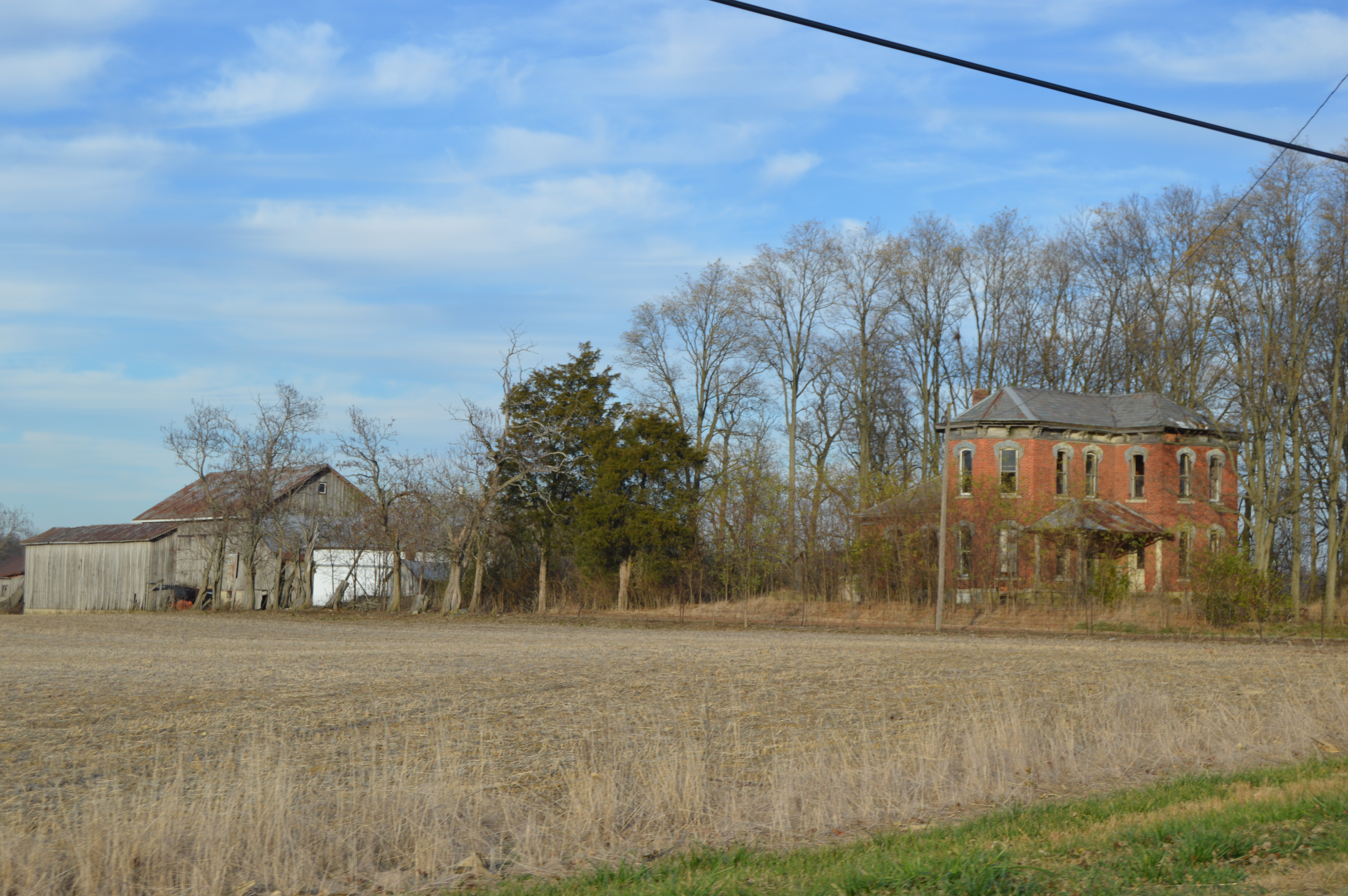 An abandoned farmstead on the northern side of State Route 722 midway between Castine and Ithaca in Twin Township, Darke County, Ohio, United States.